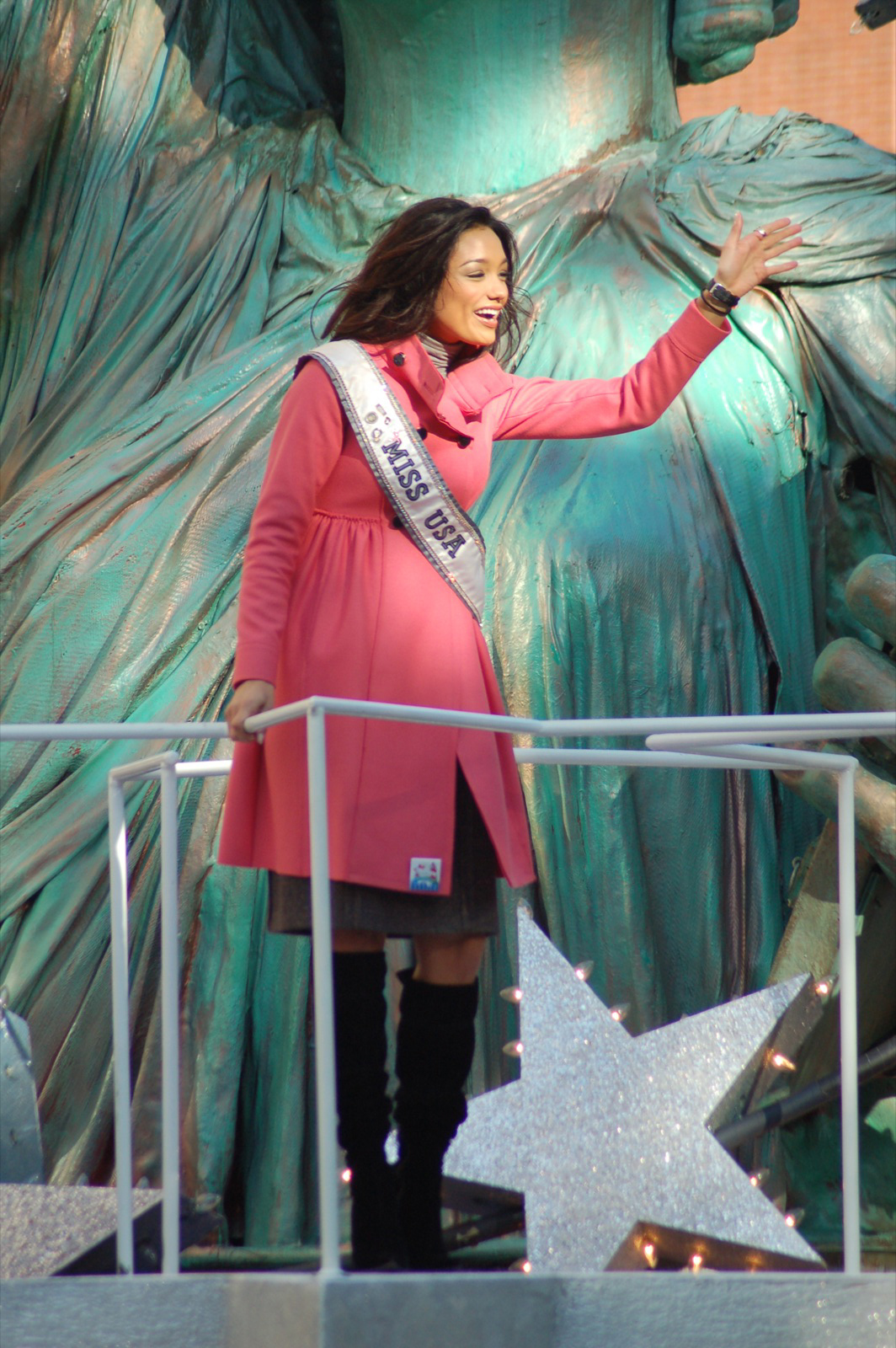 Miss USA 2007 Rachel Smith in the Macy's Parade